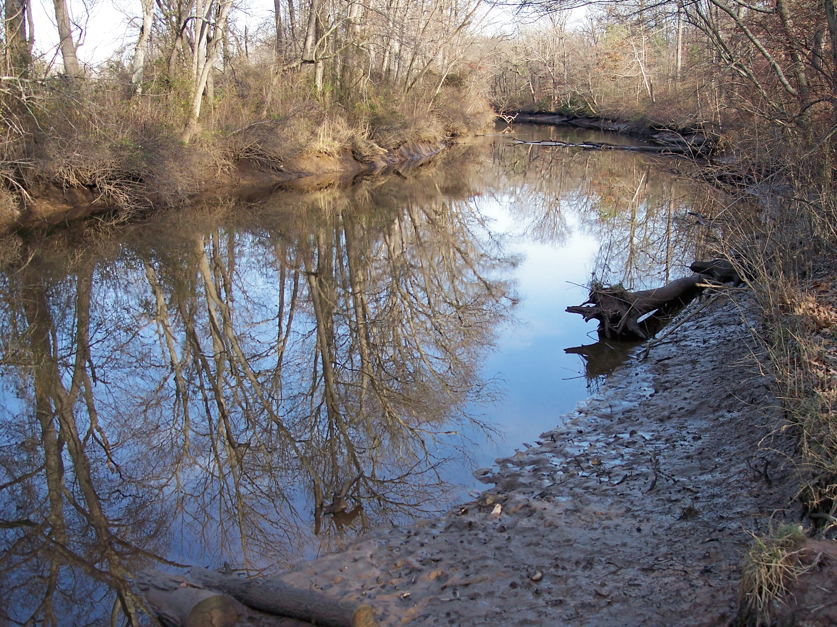 The Christina River in Lewden-Greene Park, near the community of Christiana in New Castle County, Delaware